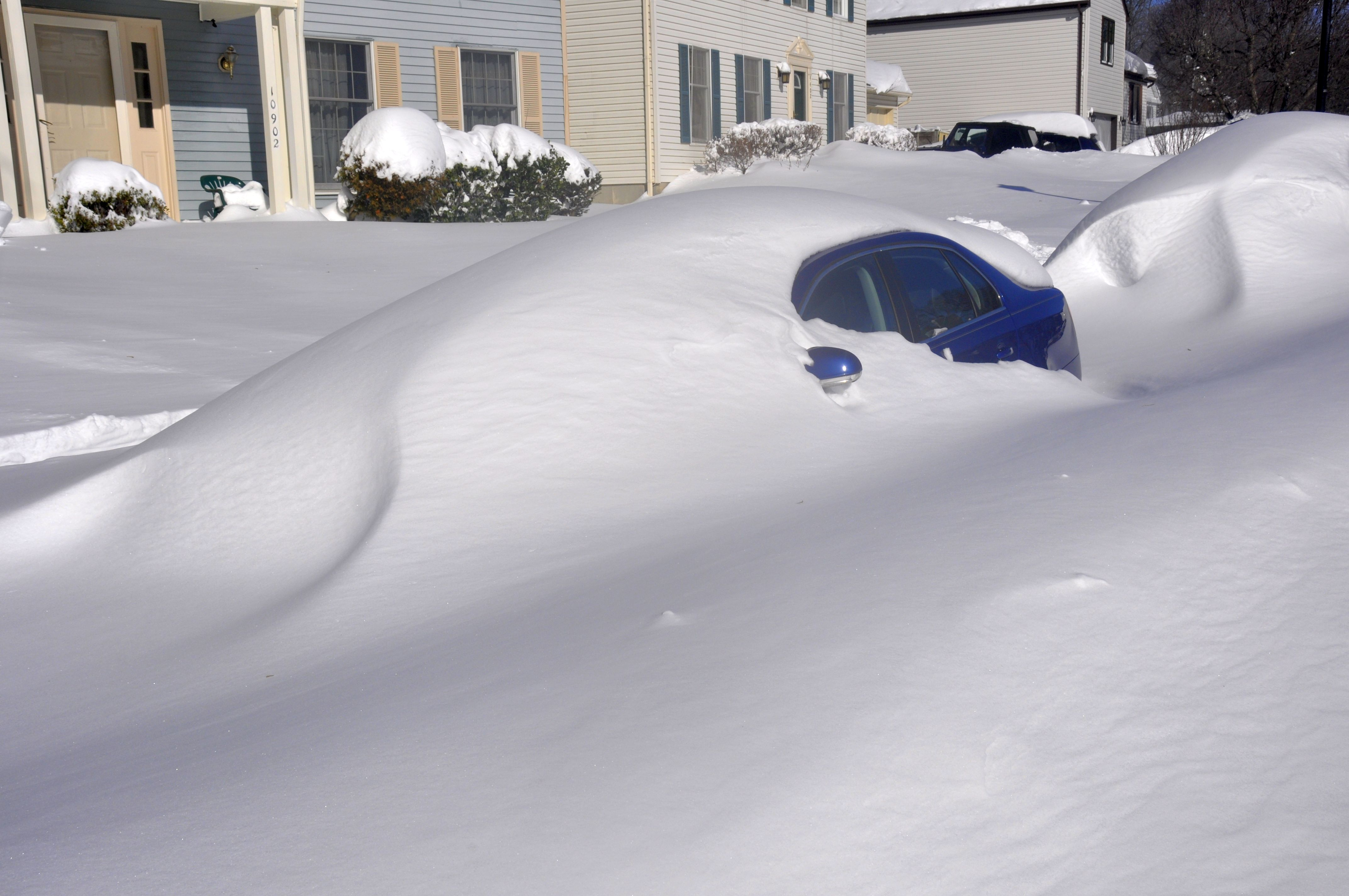 Aftermaths of January 2016 United States blizzard in Fairfax Villa neighborhood in Fairfax, Virginia.